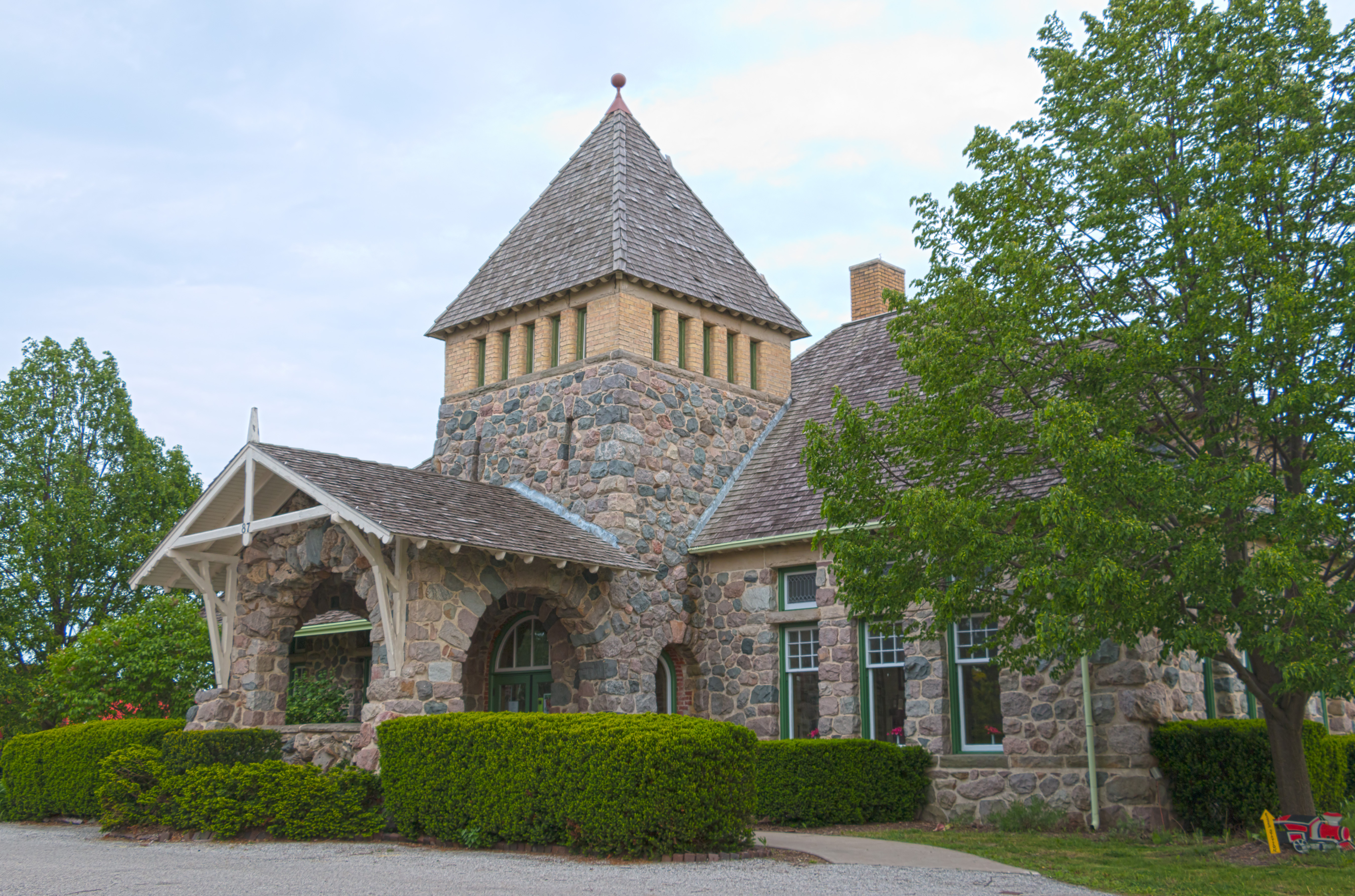 Historic Essex Train Station in Essex Ontario